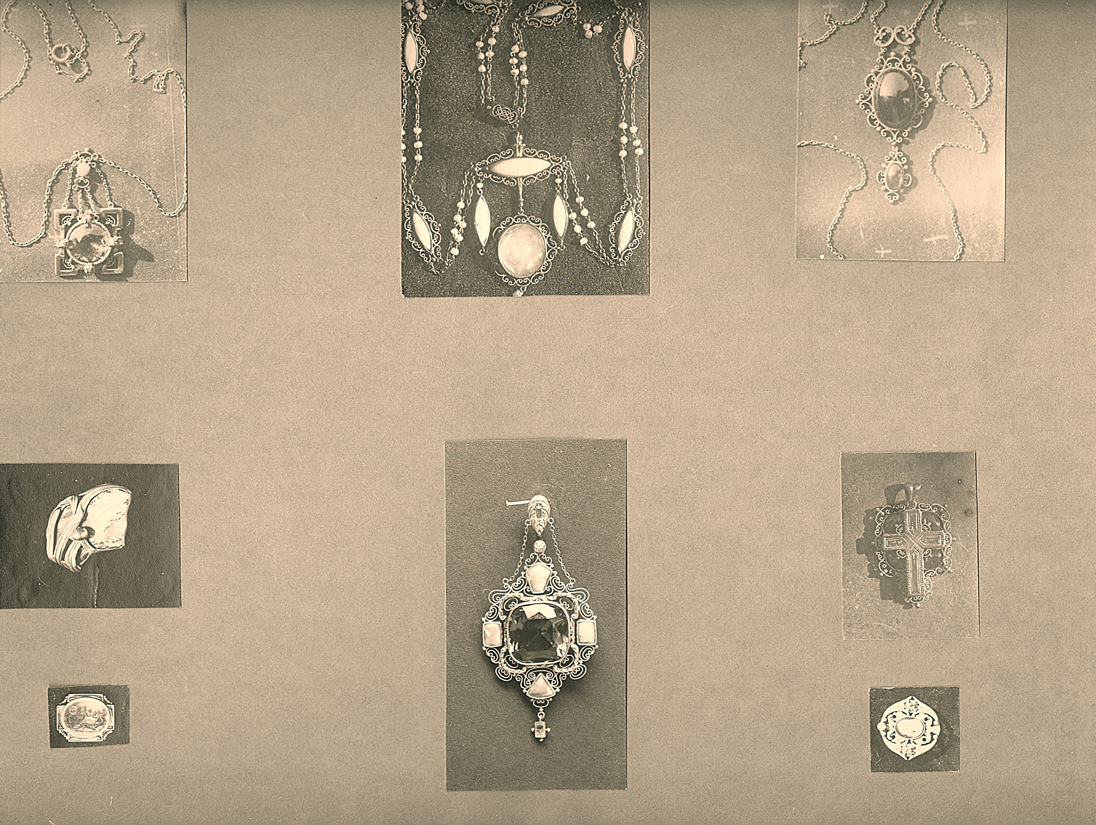 Jewelry designed by Henry Atkins and sold at the Vickery Atkins & Torrey art gallery in San Francisco.